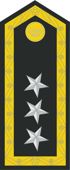 The Army of the Republic of Vietnam's rank of Lieutenant General (Trung Tướng), 1967-1975